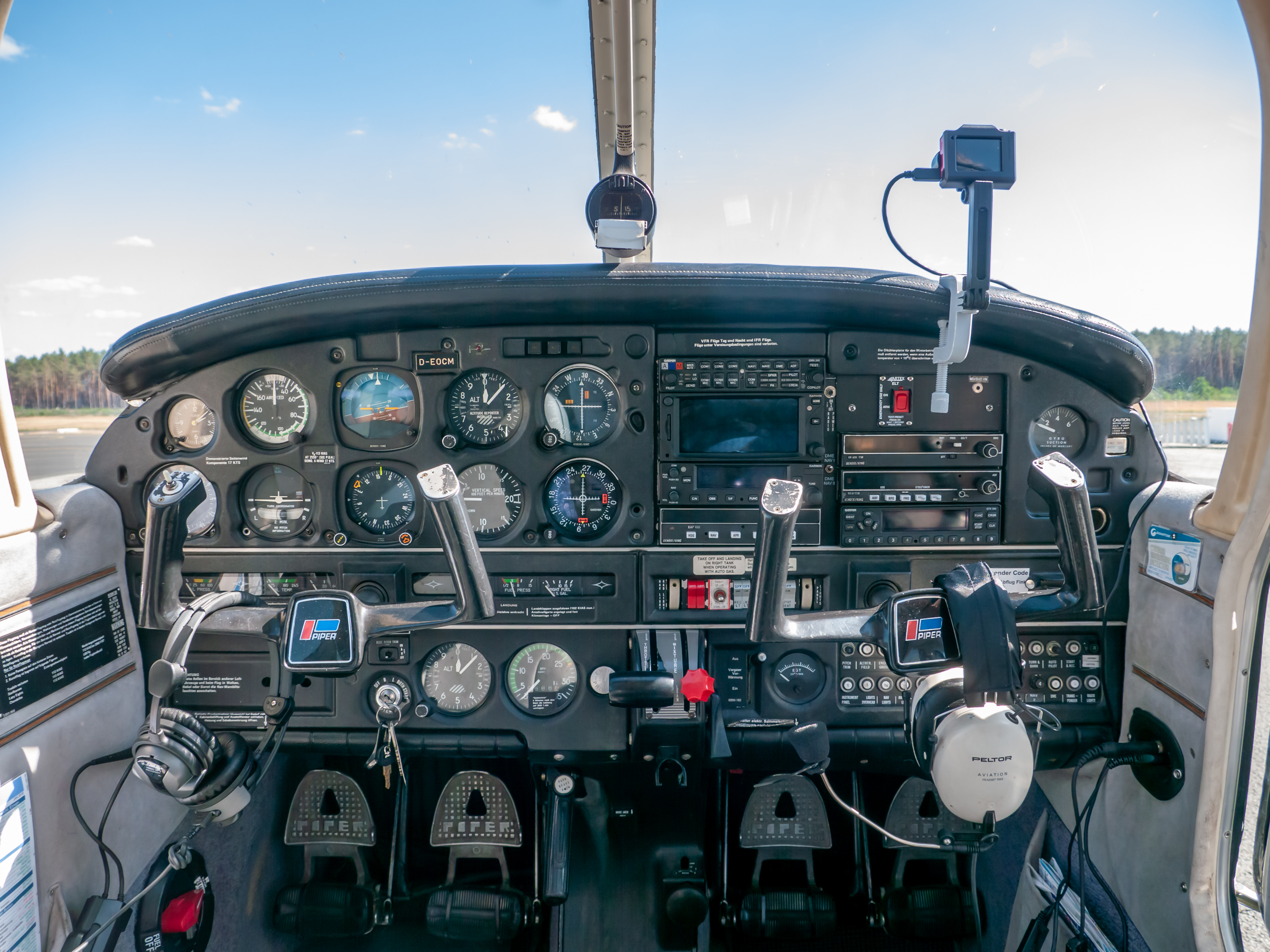 Cockpit of a Piper Archer II